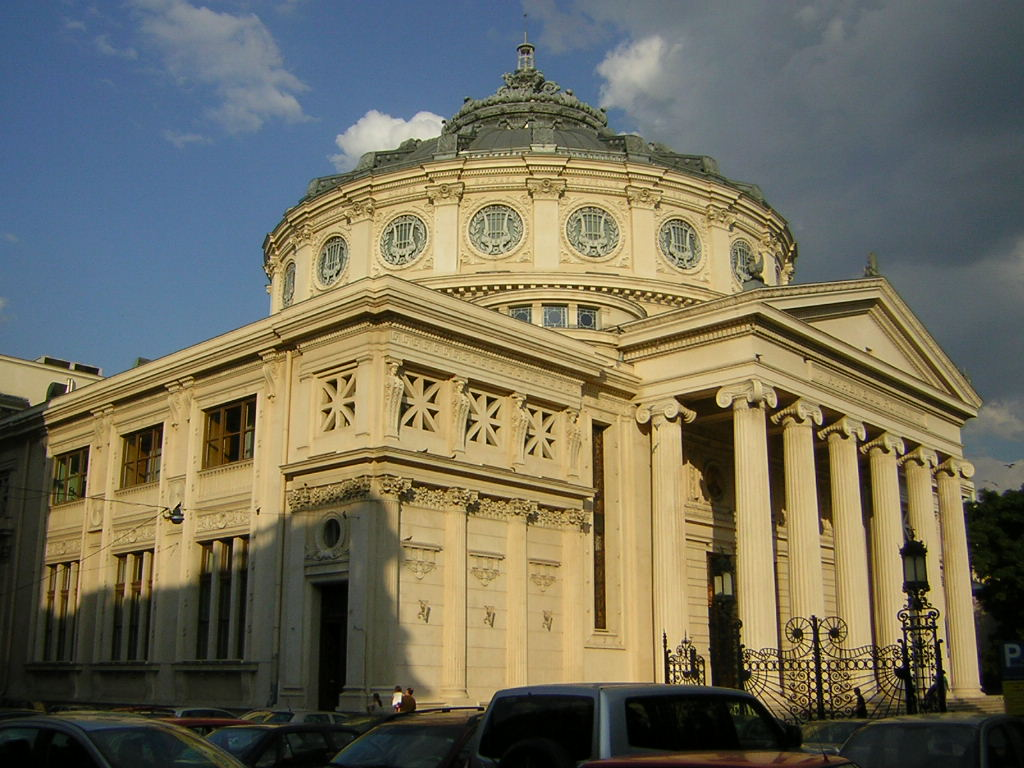 Romanian Athenaeum in Bucharest, Romania